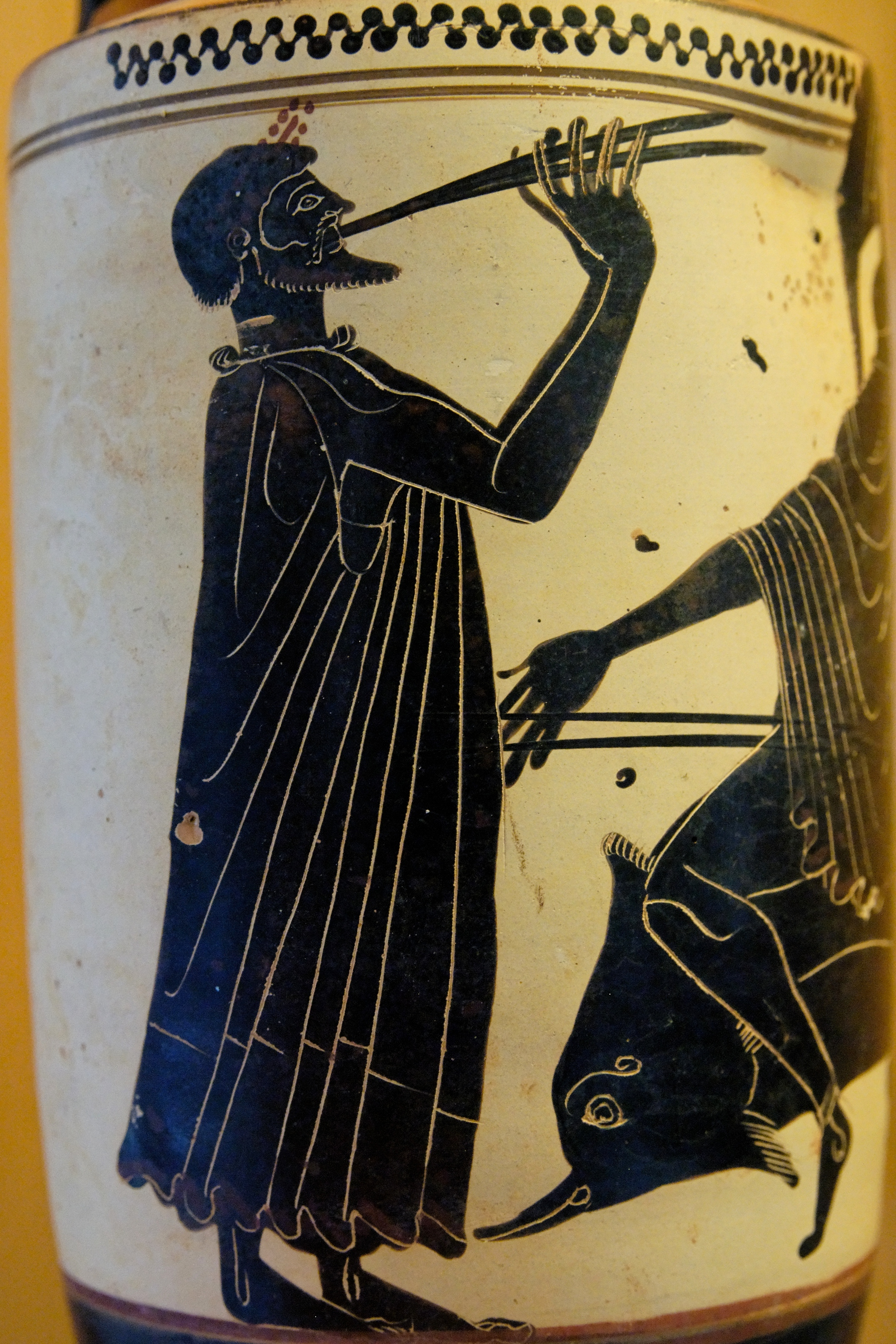 Aulos player. Attic white-ground black-figure lekythos, ca. 480 BC. From tomb 22 of the Gaggera necropolis in Selinunte, Sicily.